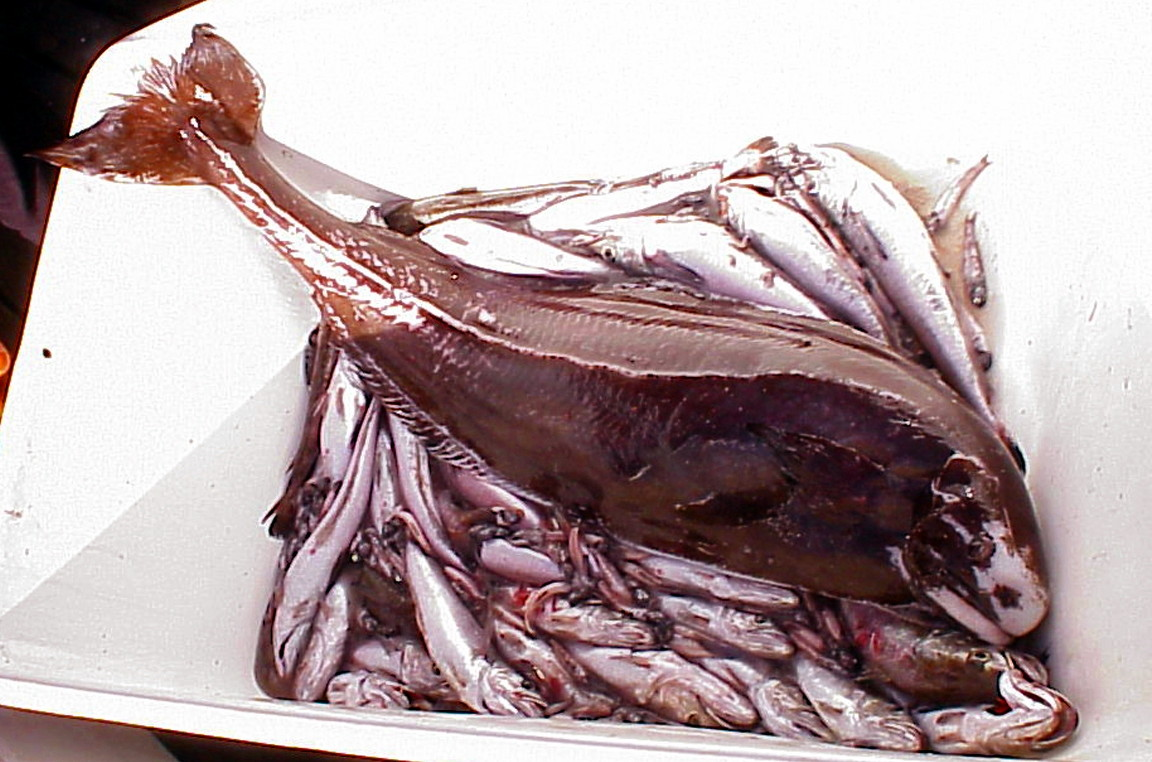 An adult six foot long Ragfish caught during trawling operations. Image ID: fish4037, NOAA's Fisheries Collection Location: Alaska, Southeast Photo Date: 2001